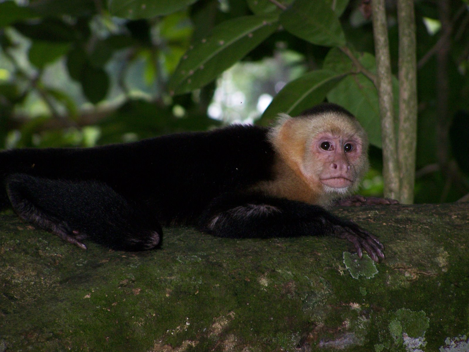 White-faced capuchin monkey in Manuel Antonio National Park in Costa Rica